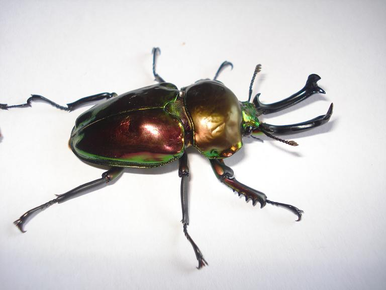 Phalacrognathus muelleri, 62 mm